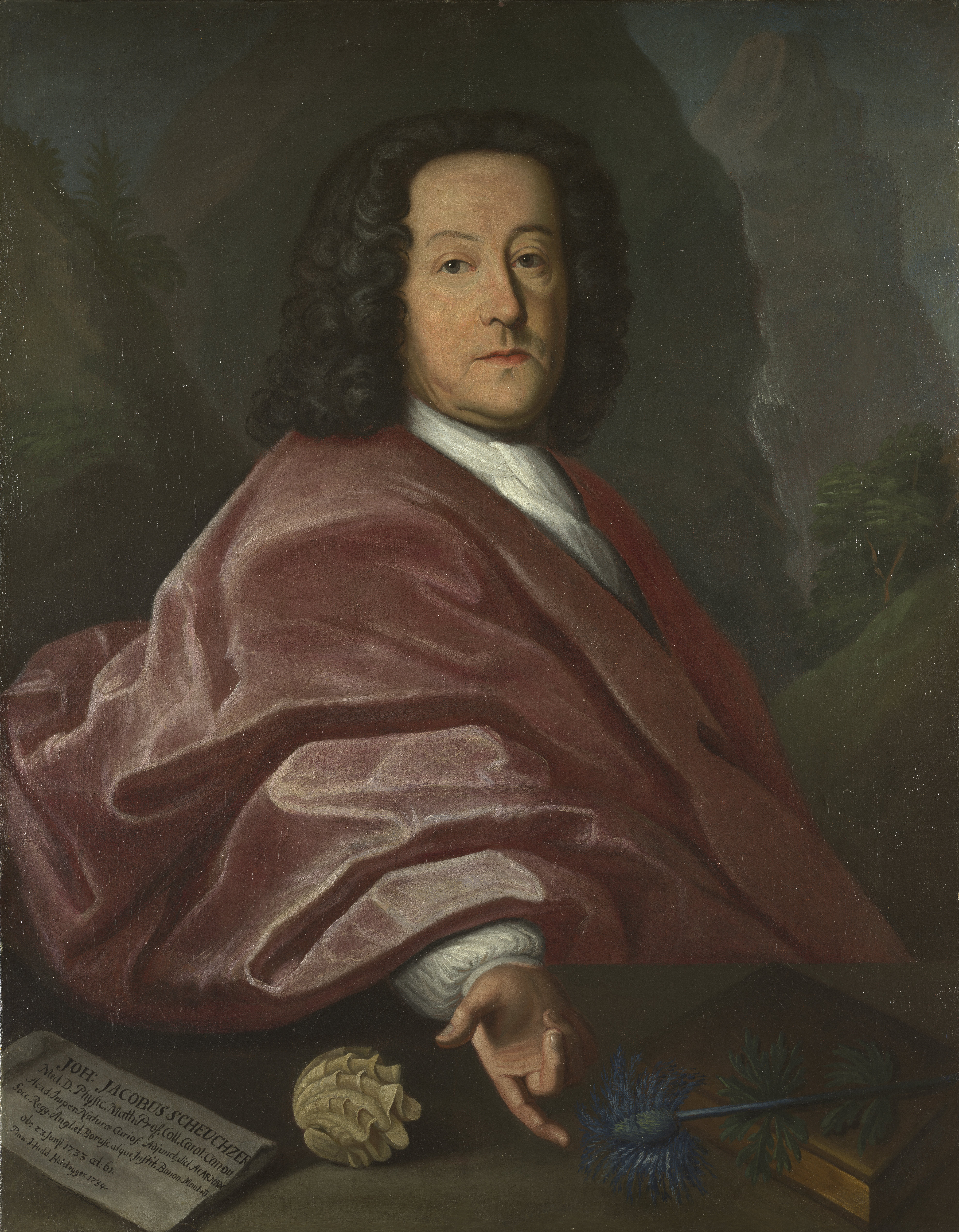 Johann Jakob Scheuchzer, D. Physic Med. Professor Coll. Carol .... ob in 1733. aet. 61